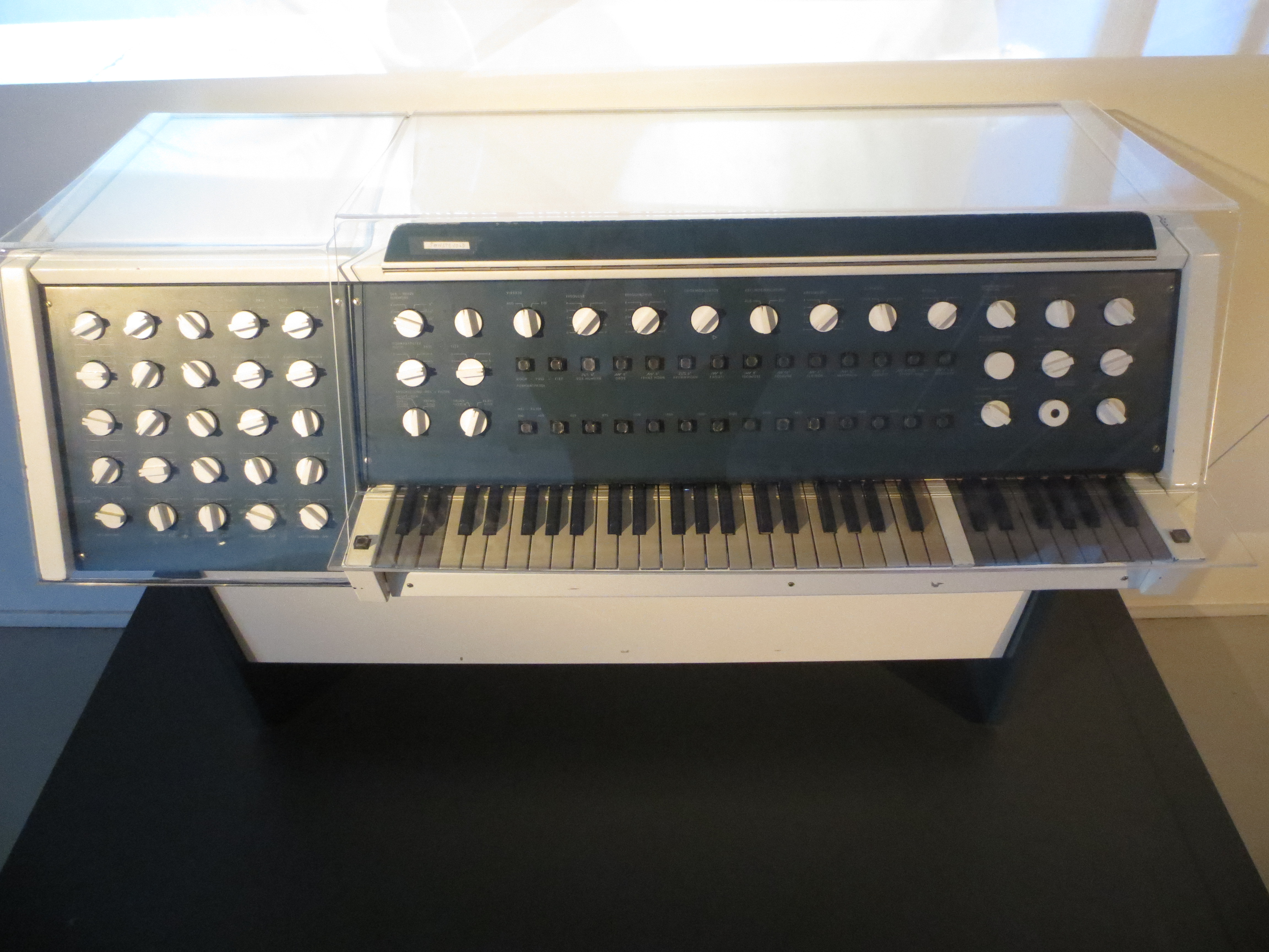 This subharchord was produced in the GDR (East Germany) in 1968, for delivery to the Norwegian Broadcasting Company (NRK). It was manufactured at a musikal-technical institute (Labor für Musikalisch-Akustische Grenzprobleme) in East Berlin. The purchase produced furore in the NRK. Exibit number 179904 at the Norwegian Technical Museum, Oslo.